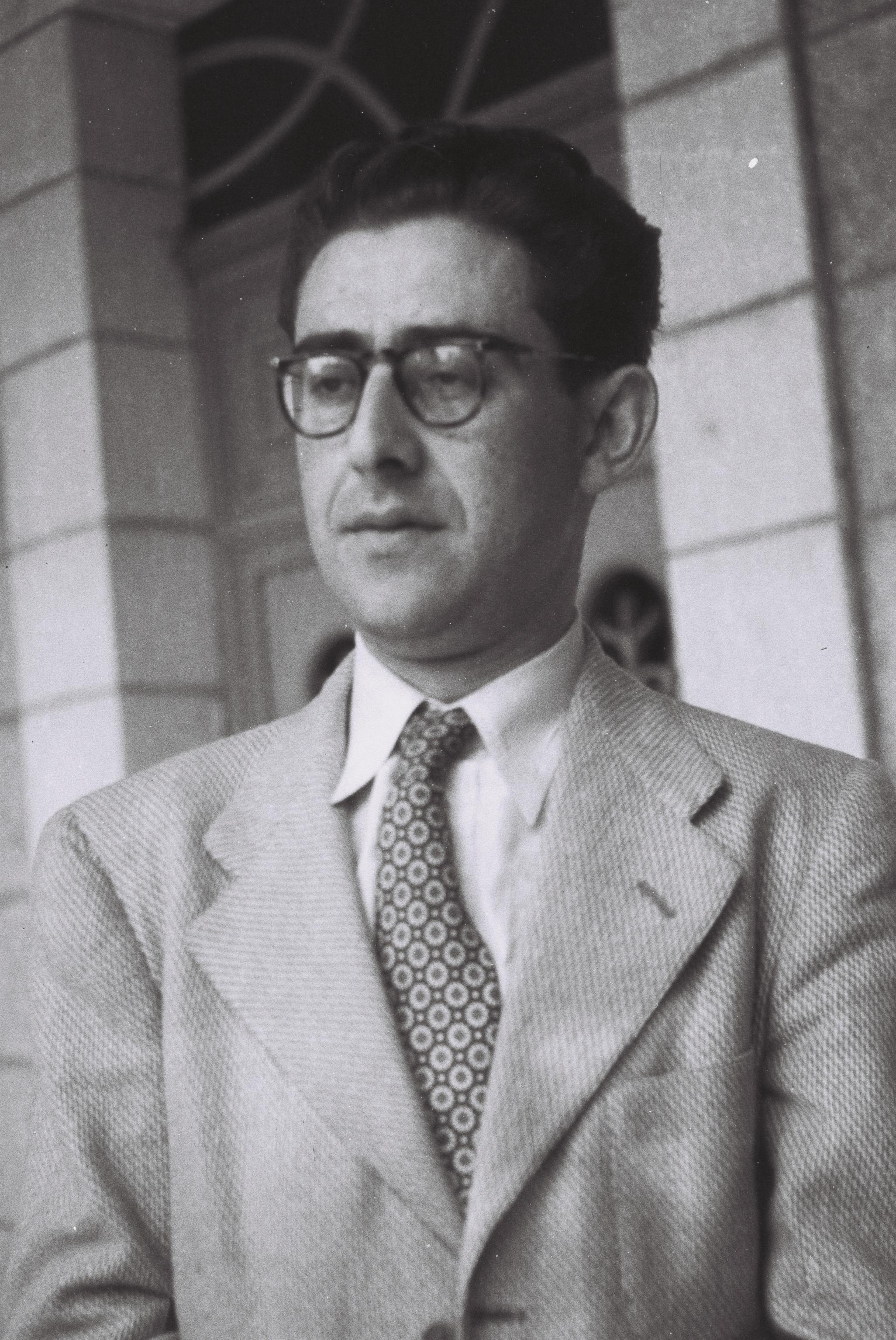 PORTRAIT. MOSHE YUVAL, FIRST SECRETARY AT THE ISRAELI EMBASSY IN WASHINGTON.